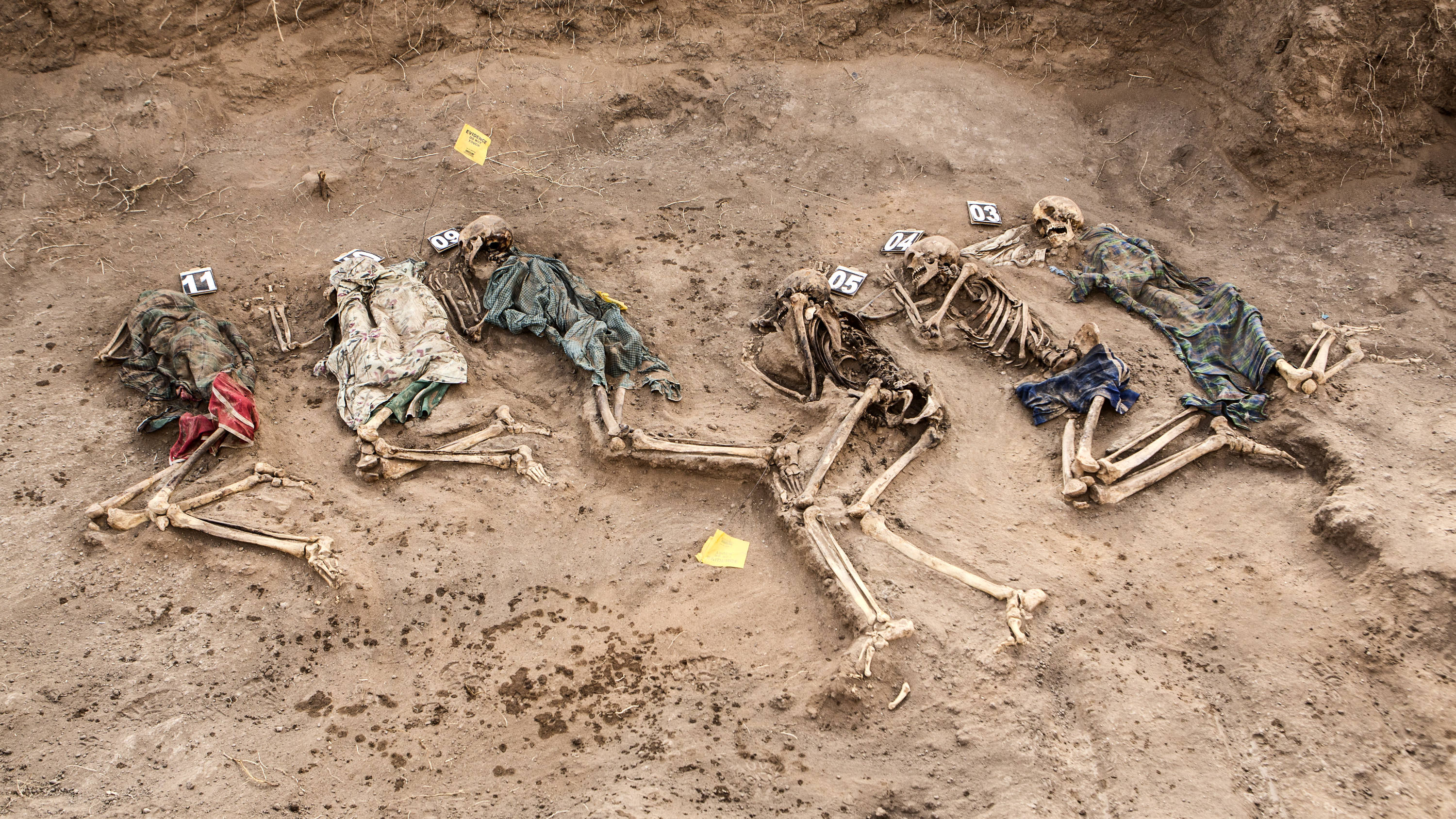 Six bodies lie inside a grave, exhumed as part of an investigation conducted by Peruvian Team of Forensic Anthropology (EPAF)